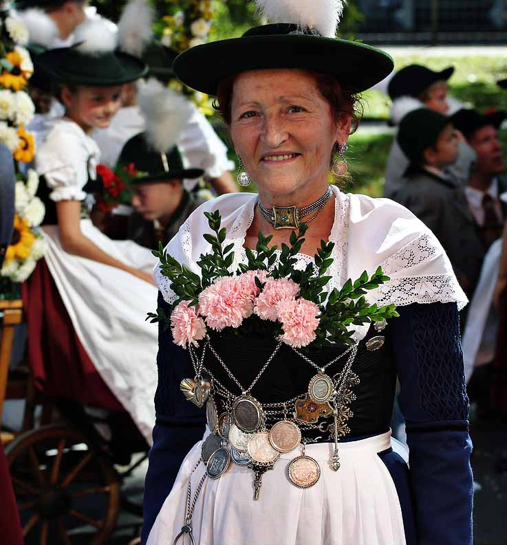 Woman wearing a goiter choker, September 2004